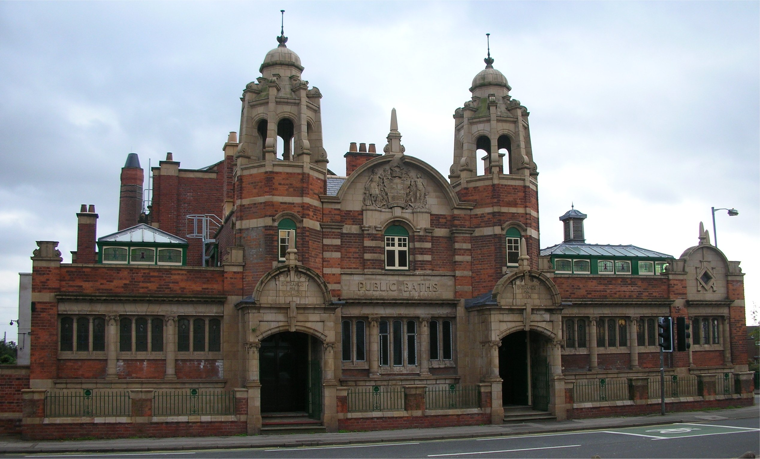 The public swimming baths at Nechells, Birmingham, England. A grade II listed building opened 1910, designed by Arthur Harrison. The sculpted coat of arms of Birmingham in the central arch is by Benjamin Creswick.